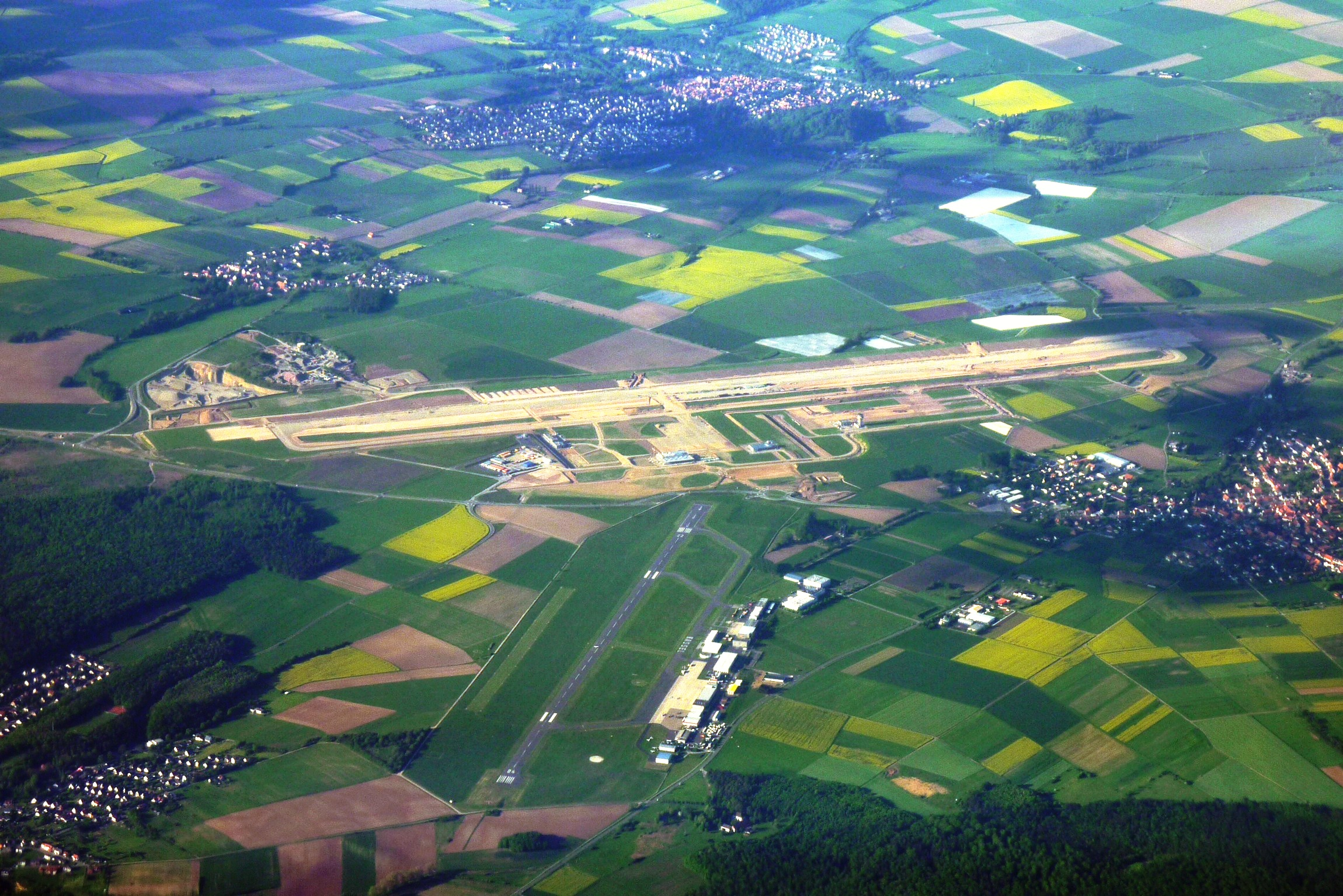 Kassel Calden Airport. When construction of the new runway is completed, the old one will be demolished.